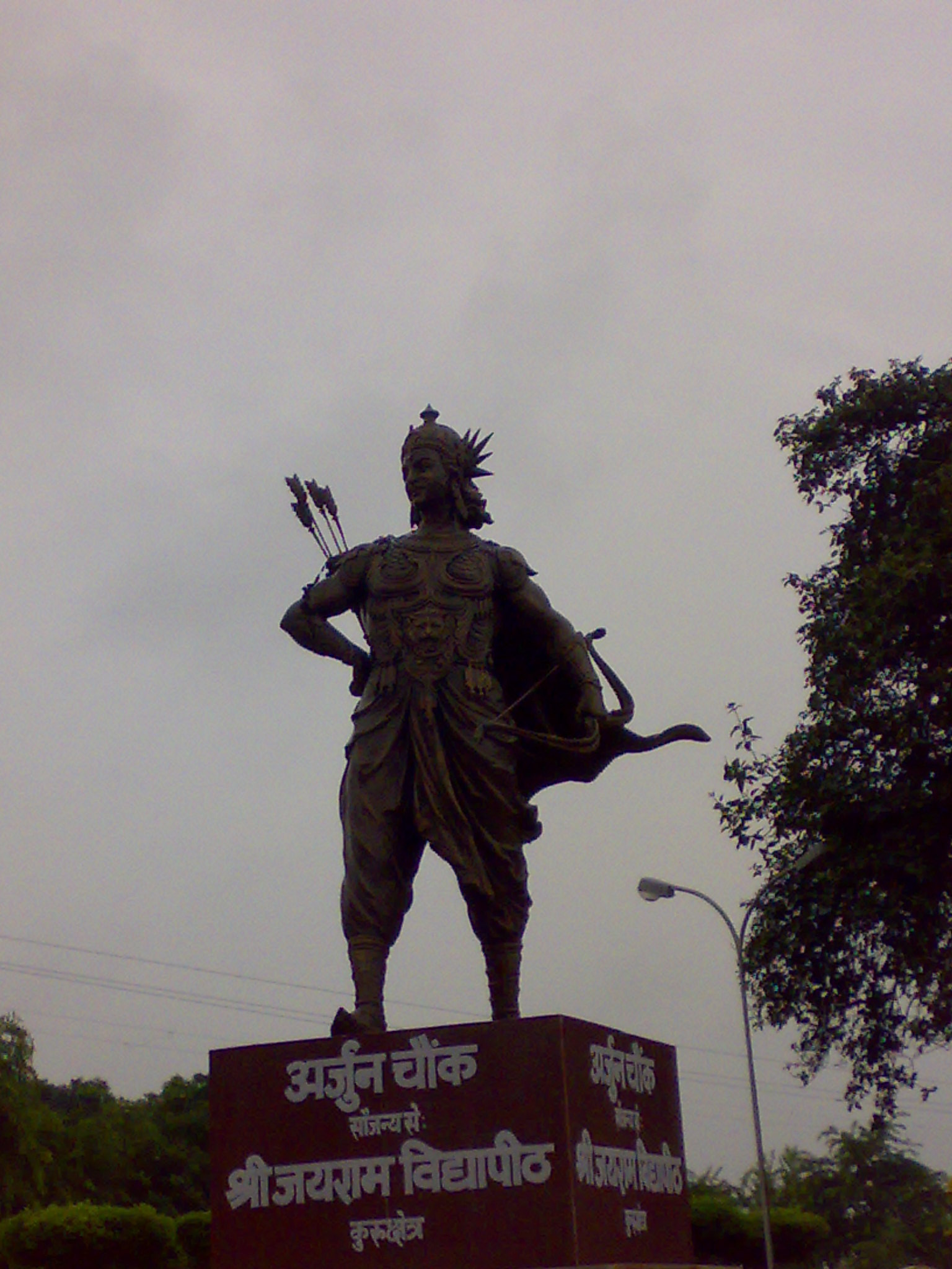 The majestic and inspiring statue of Arjun at the Arjun Chowk near Brahma Sarovar - Thaneshwar - Kurukshetra